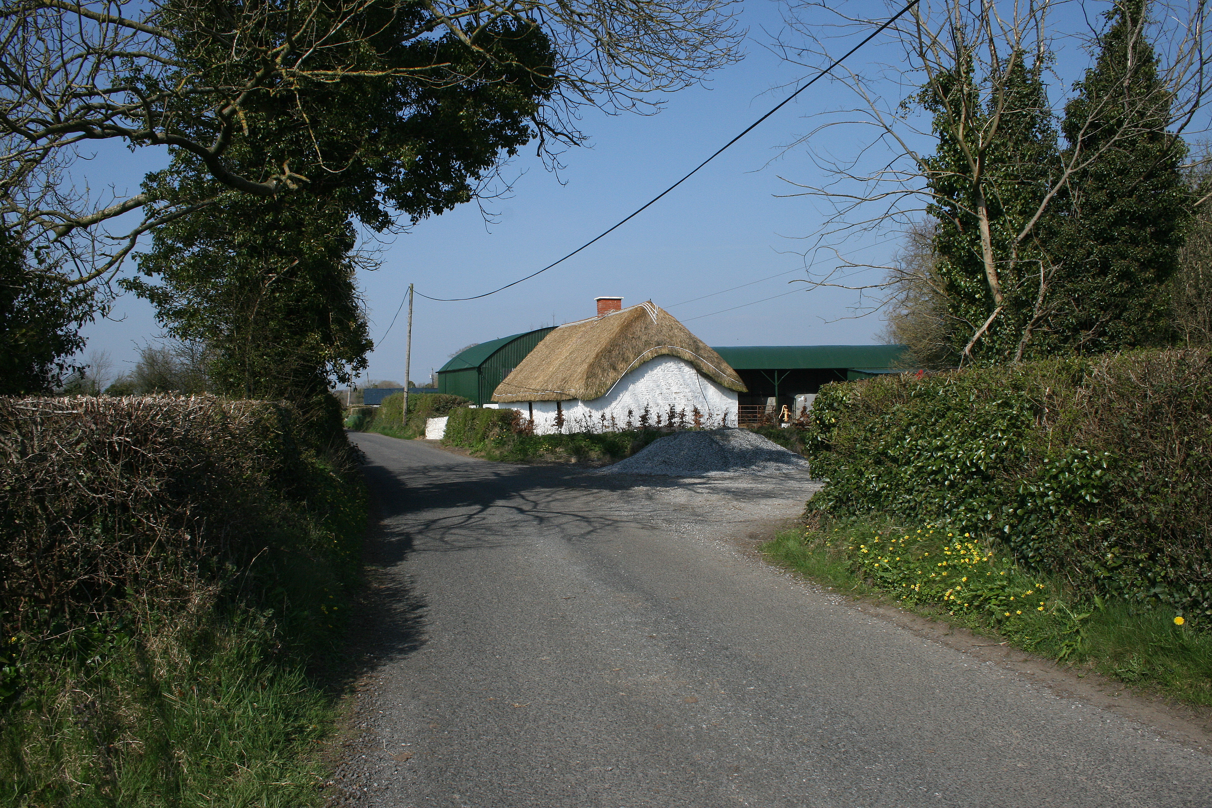 Road connecting N80 to village centre in Clonaghadoo, County Offaly